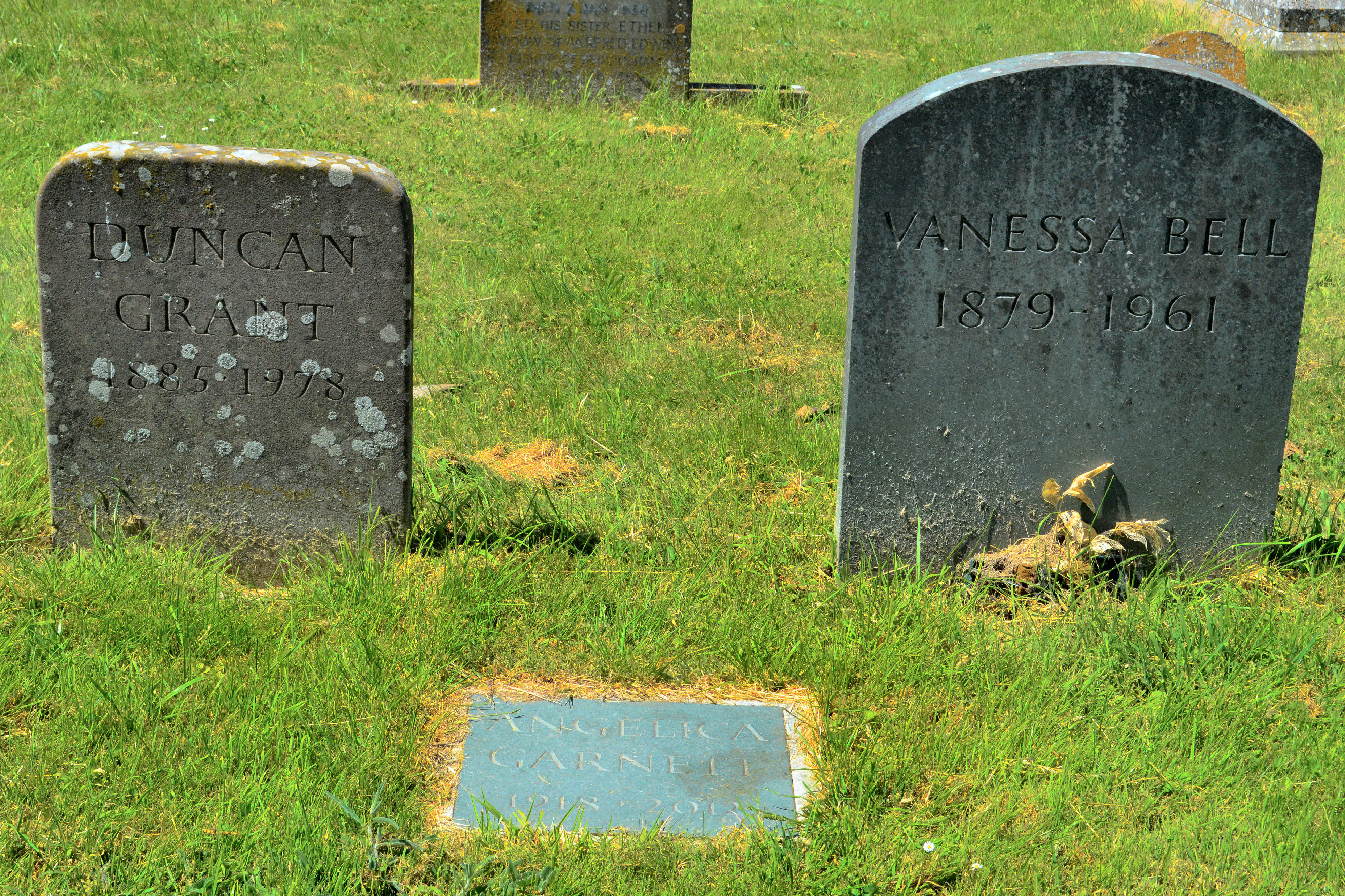 Firle, St Peters Church. Graves of Duncan Grant & Vanessa Bell with a memorial to Angelica Garnett (nee Bell)